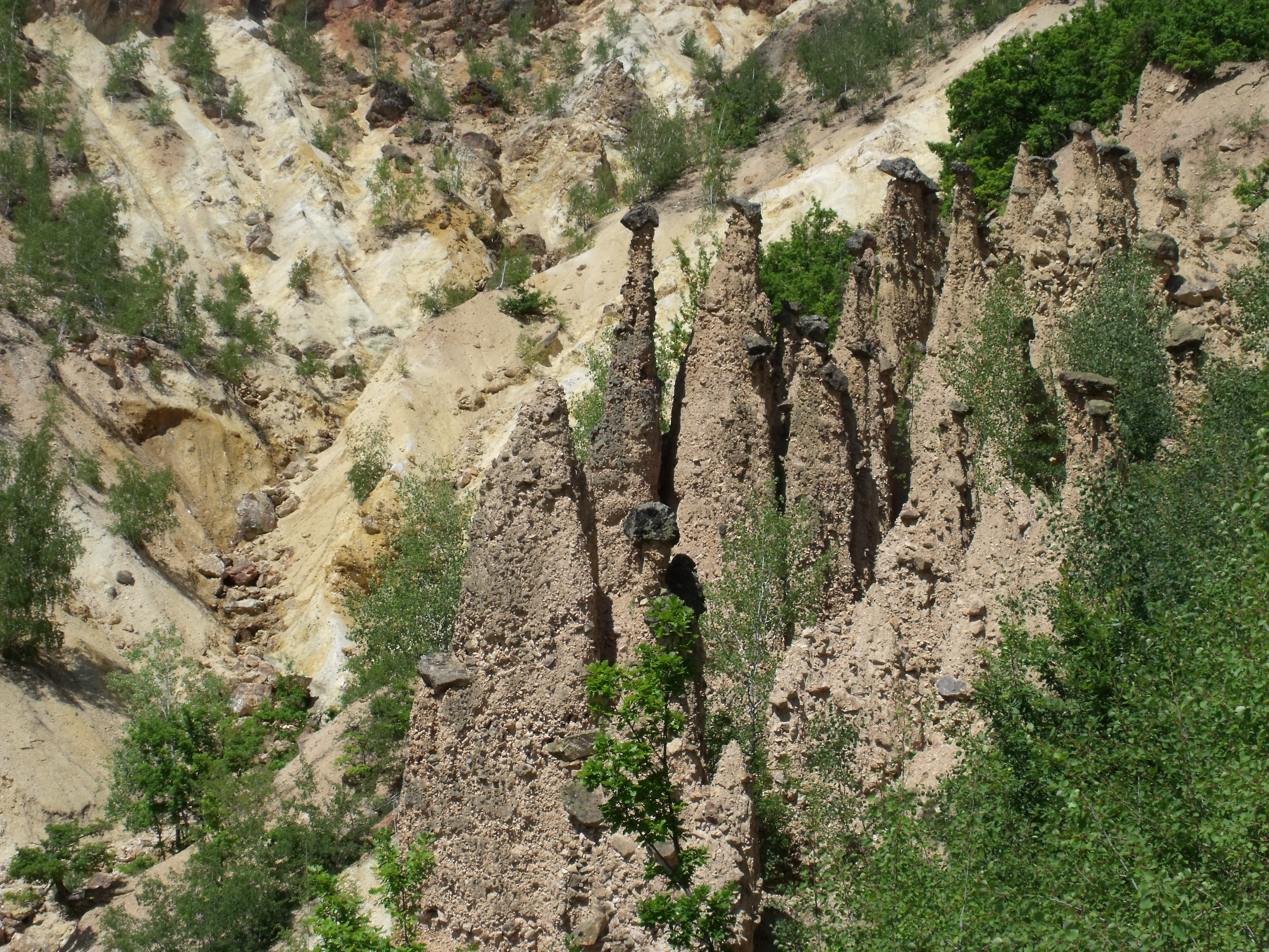 Djavolja varos, Serbia